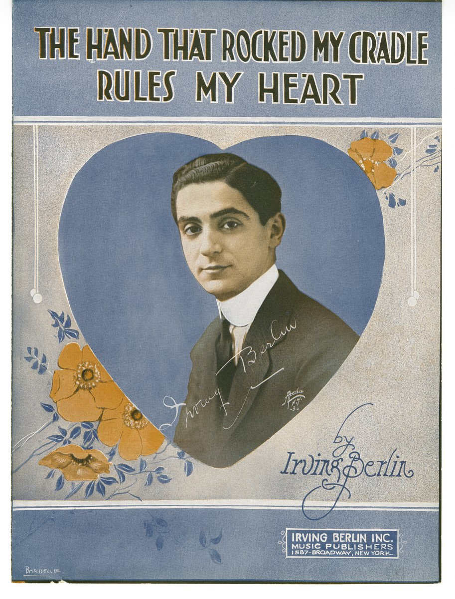 "The Hand That Rocked My Cradle Rules My Heart" (sheet music) page 1 of 3